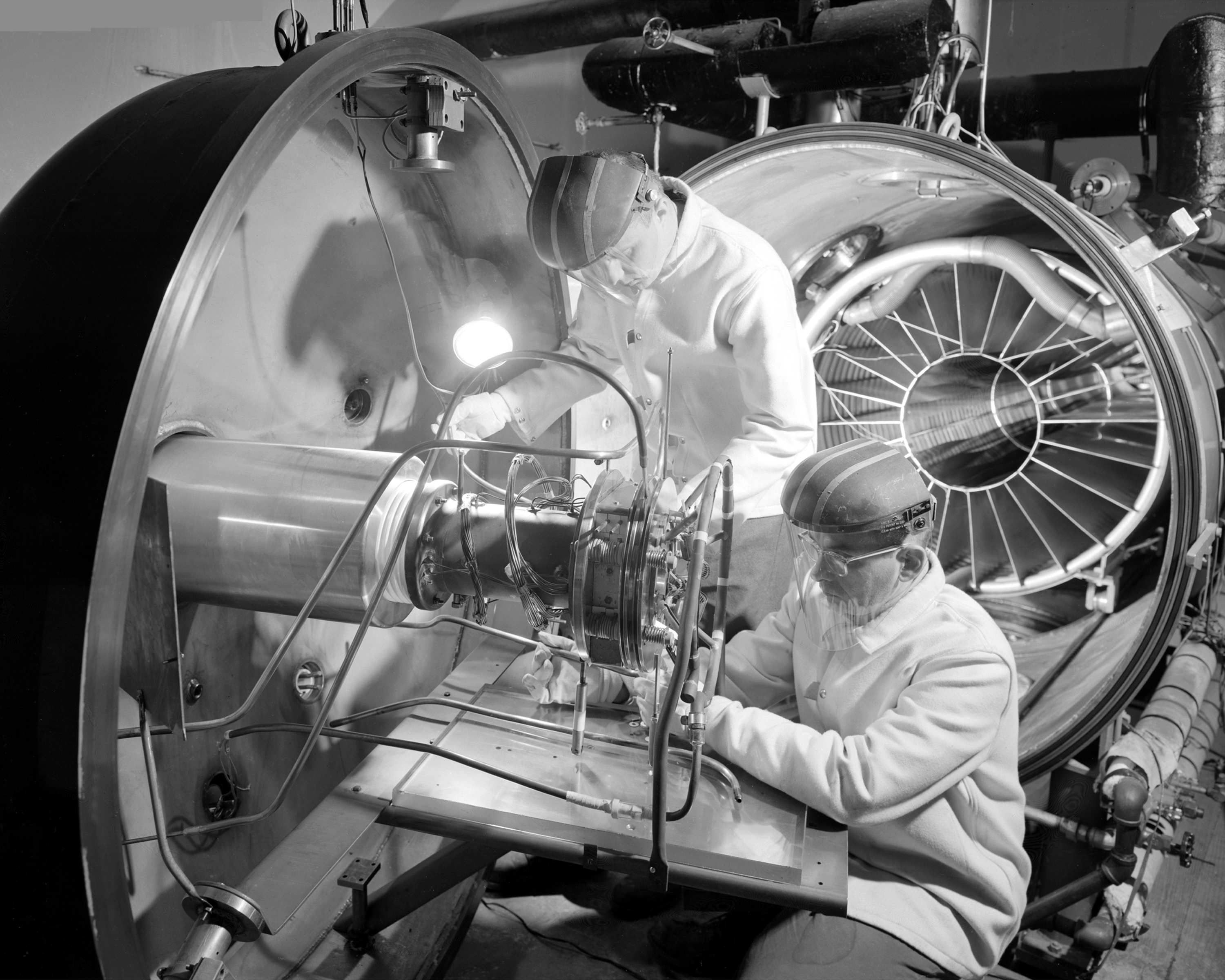 Ion engine #1 being installed in the High Vacuum Tank in the Electric Propulsion Research Building - EPRB. This facility is located at the Lewis Research Center, now John H. Glenn Research Center in Cleveland Ohio. This device is the early predecessor of the power system that is sending Deep Space 1 to explore the solar system.